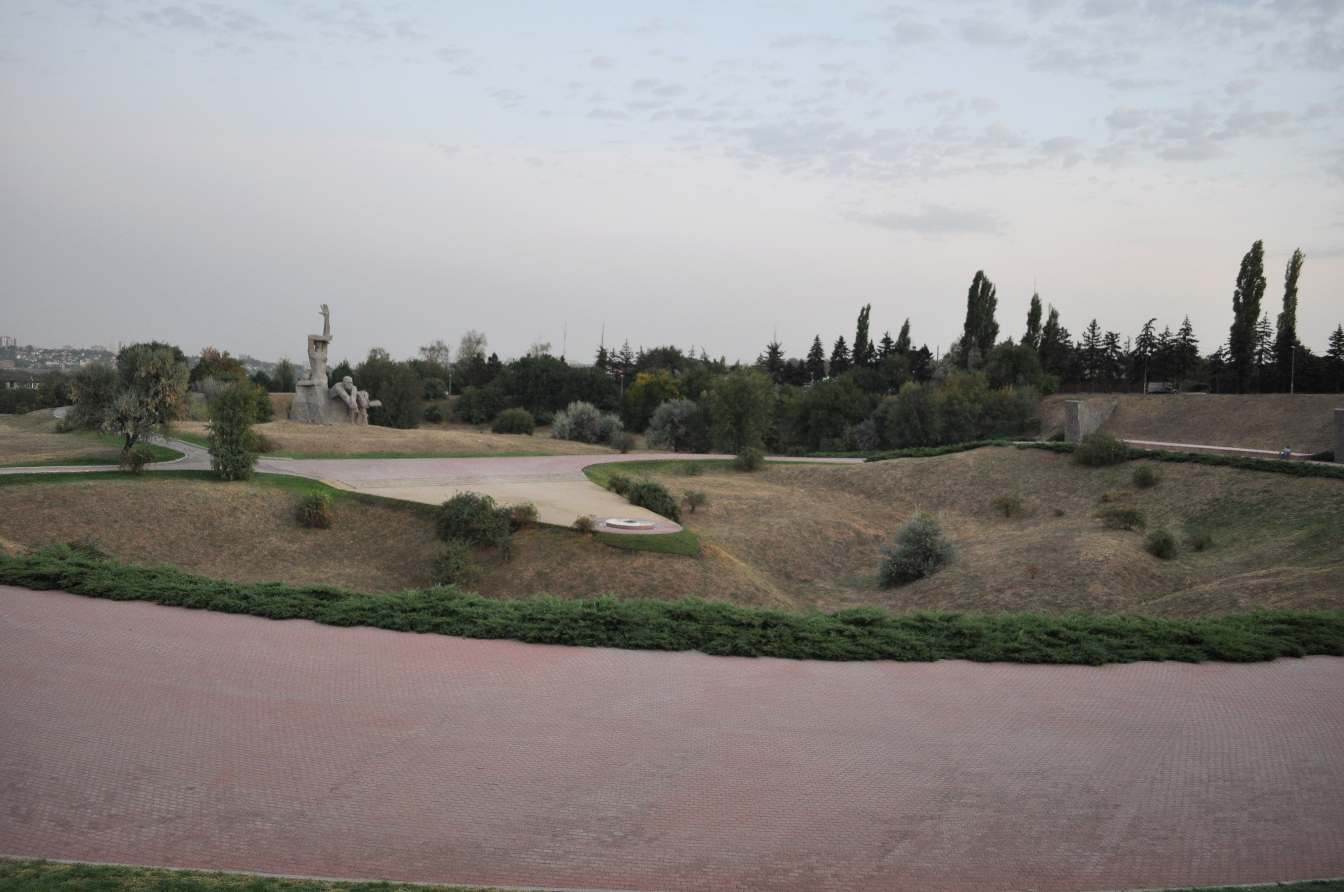 Zmievskaya Balka is place of mass shootings at 1942. Dovatora street, Rostov-on-Don, Rostov Oblast, Russia.